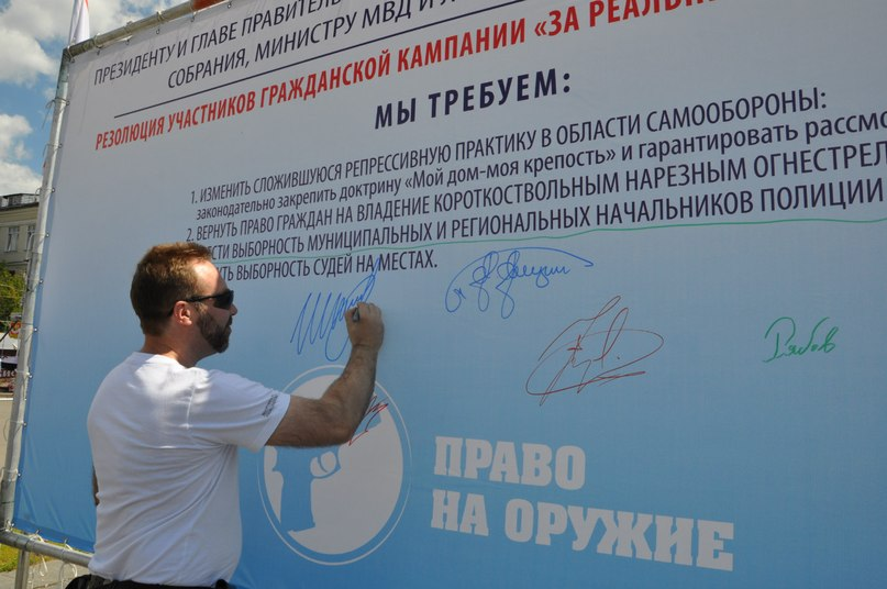 Подписание резолюции движения Право на оружие на митинге